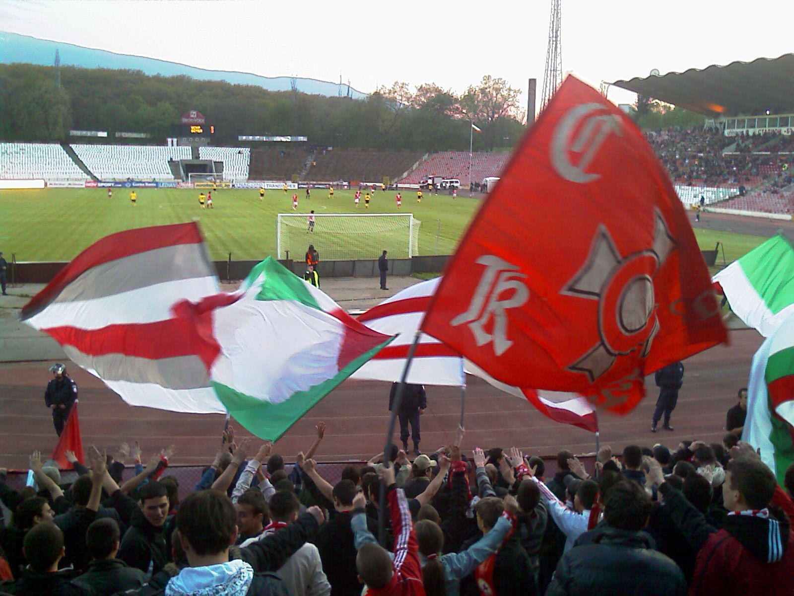 Balgarska Armija Stadium in Sofia, Bulgaria